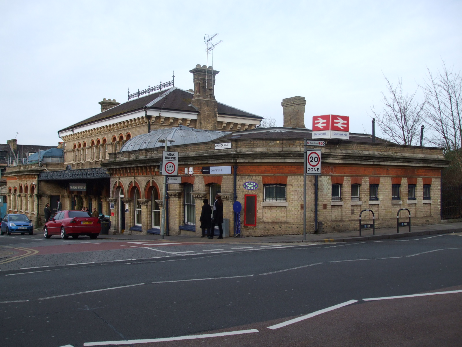 Denmark Hill station building. Only the southern most section in the foreground is still in use by the railway; the rest of the building is now a pub, the Phoenix.